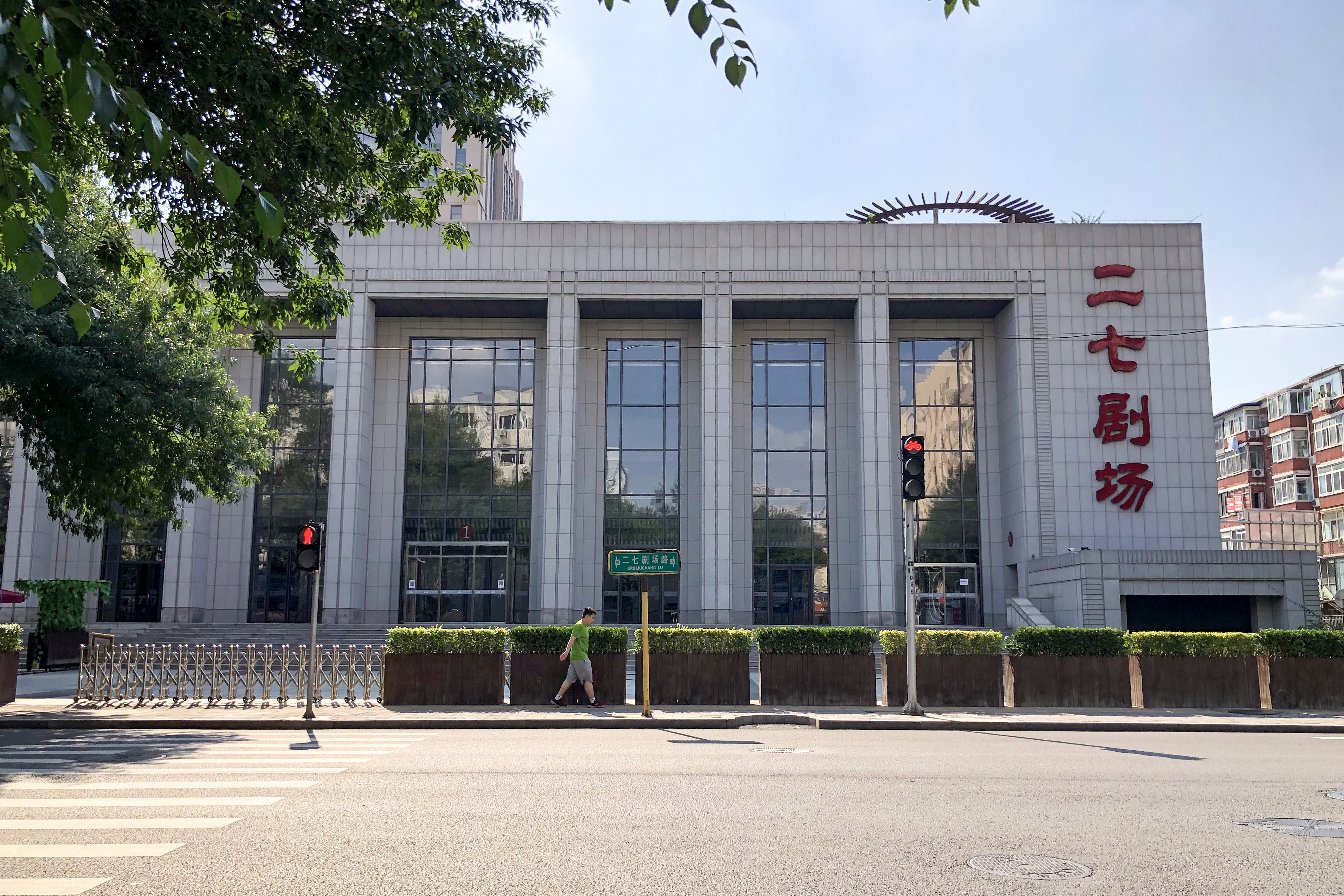 Named after the February 7th railway strike.